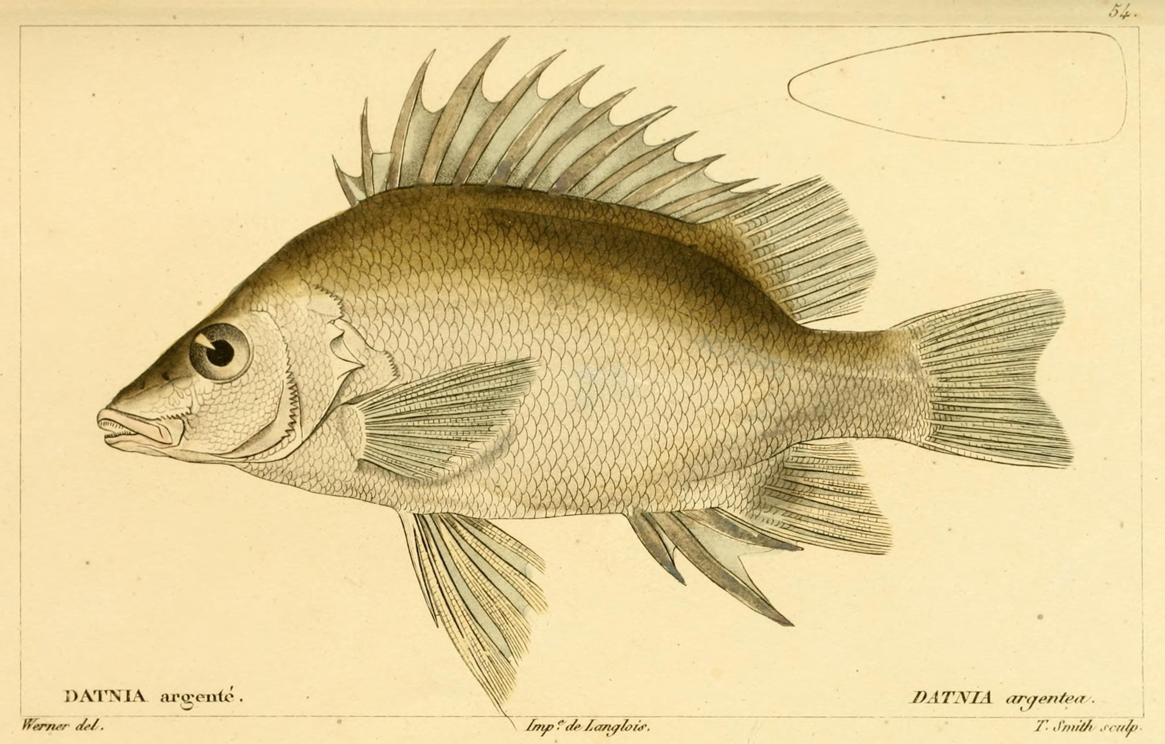 Mesopristes argenteus syn Datnia argentea from Histoire naturelle des poissons, Paris, Chez F. G. Levrault,1828-1849.